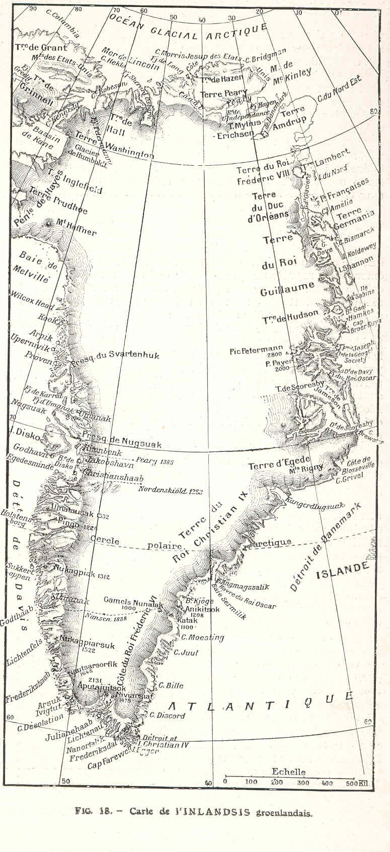 Subject: Greenland--Maps Geographic Subject: Greenland Tag: Coasts